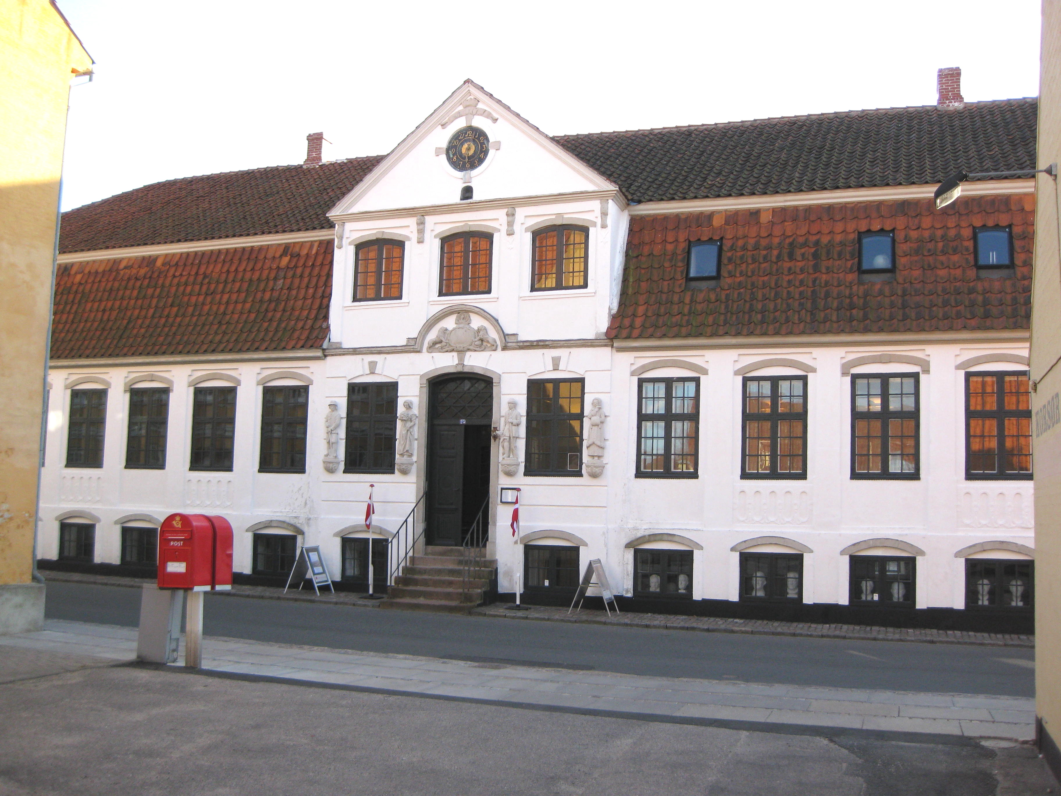 The former grocer´s estate "Kongegaarden" (1761) in Korsør. The town is located in West Zealand, Denmark.